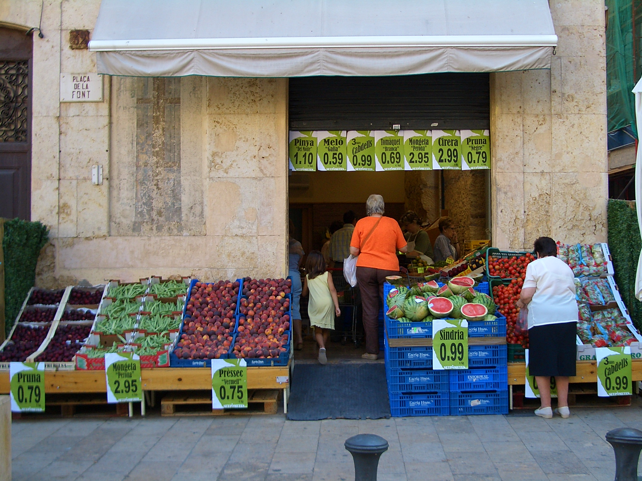 A greengrocery in Plaça De La Font, the main square of Tarragona. Note produce price tags in Catalan